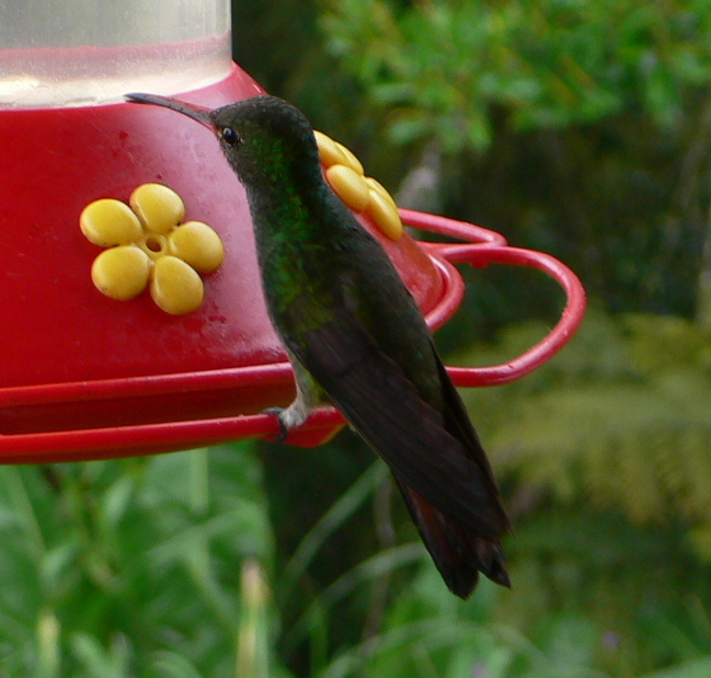 Rufous-tailed Hummingbird (Amazilia tzacatl) Feb 2006, Rancho Naturalista, Costa Rica.